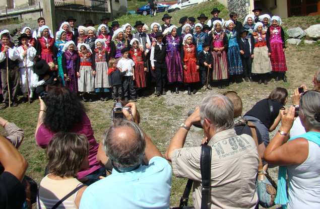 A photo of photographs and people in regional costume in Saint-Cololban-des-Villards.